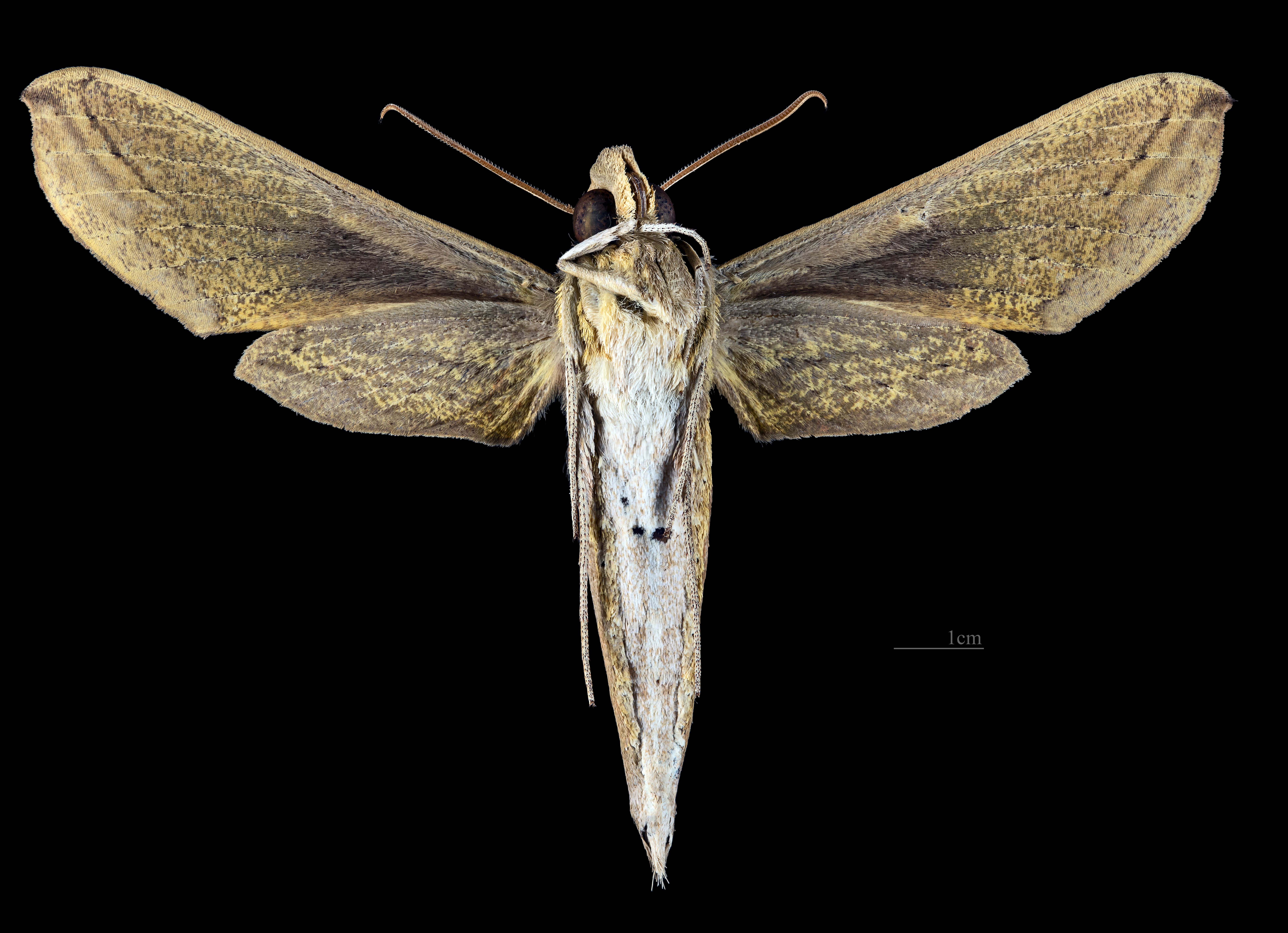 Xylophanes hydrata - △ Ventral side Collection of the Mathematician Laurent Schwartz